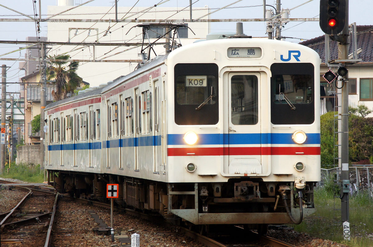 JR West 105 series 2-car EMU on a Kabe Line service